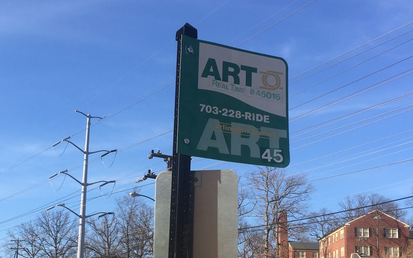 This is the bus stop that Arlington Transit used since 1998. It is still being used in some places, as new ART routes and stops shared with WMATA Metrobus features a new stop sign.